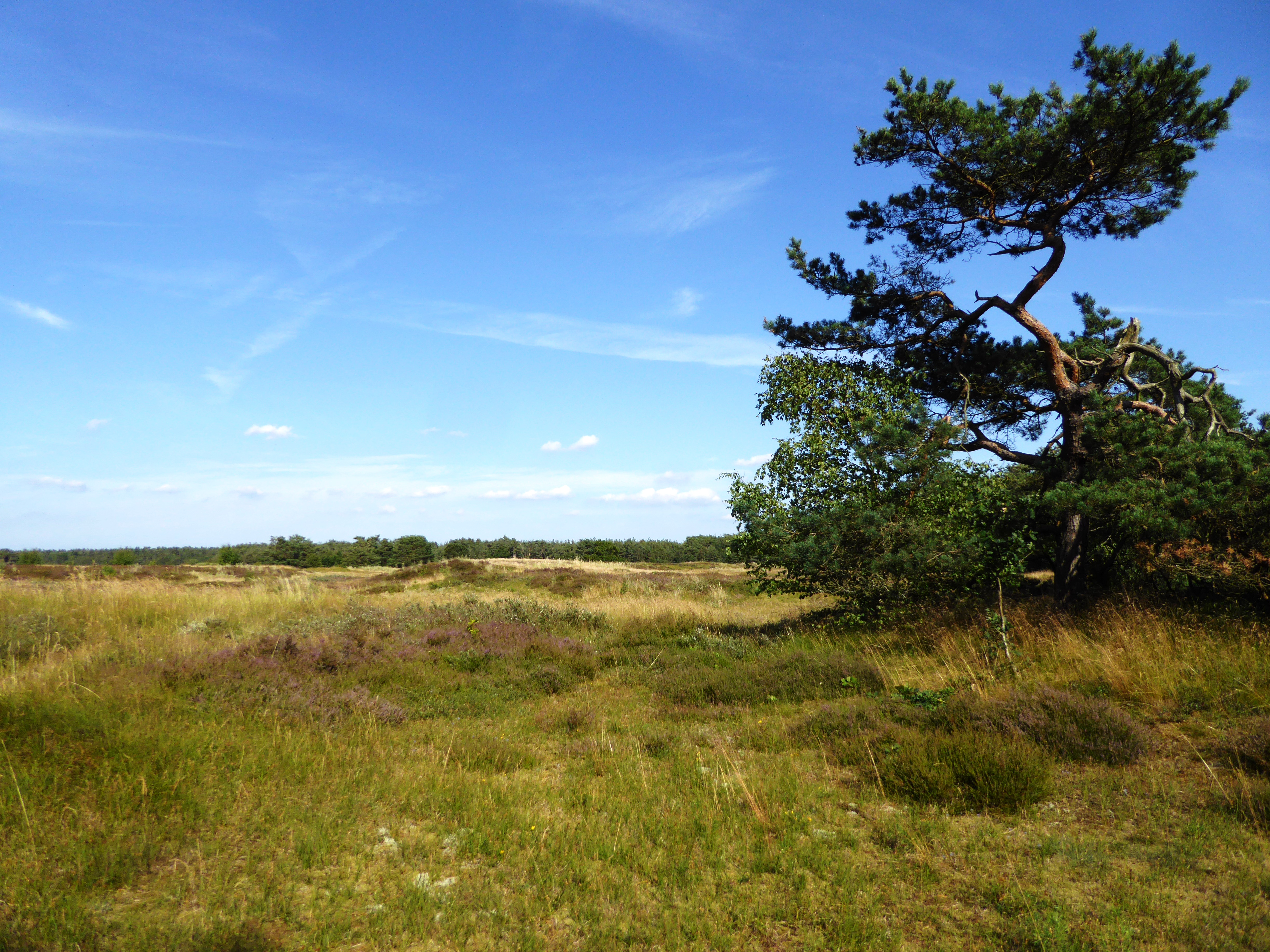 Melby Overdrev in Halsnæs Municipality, Denmark